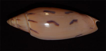 Picture of shell of Amoria maculata from own private collection